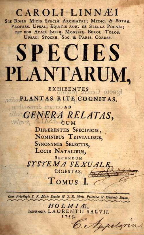 Title page of Carl von Linnés book Species plantarum (1753)